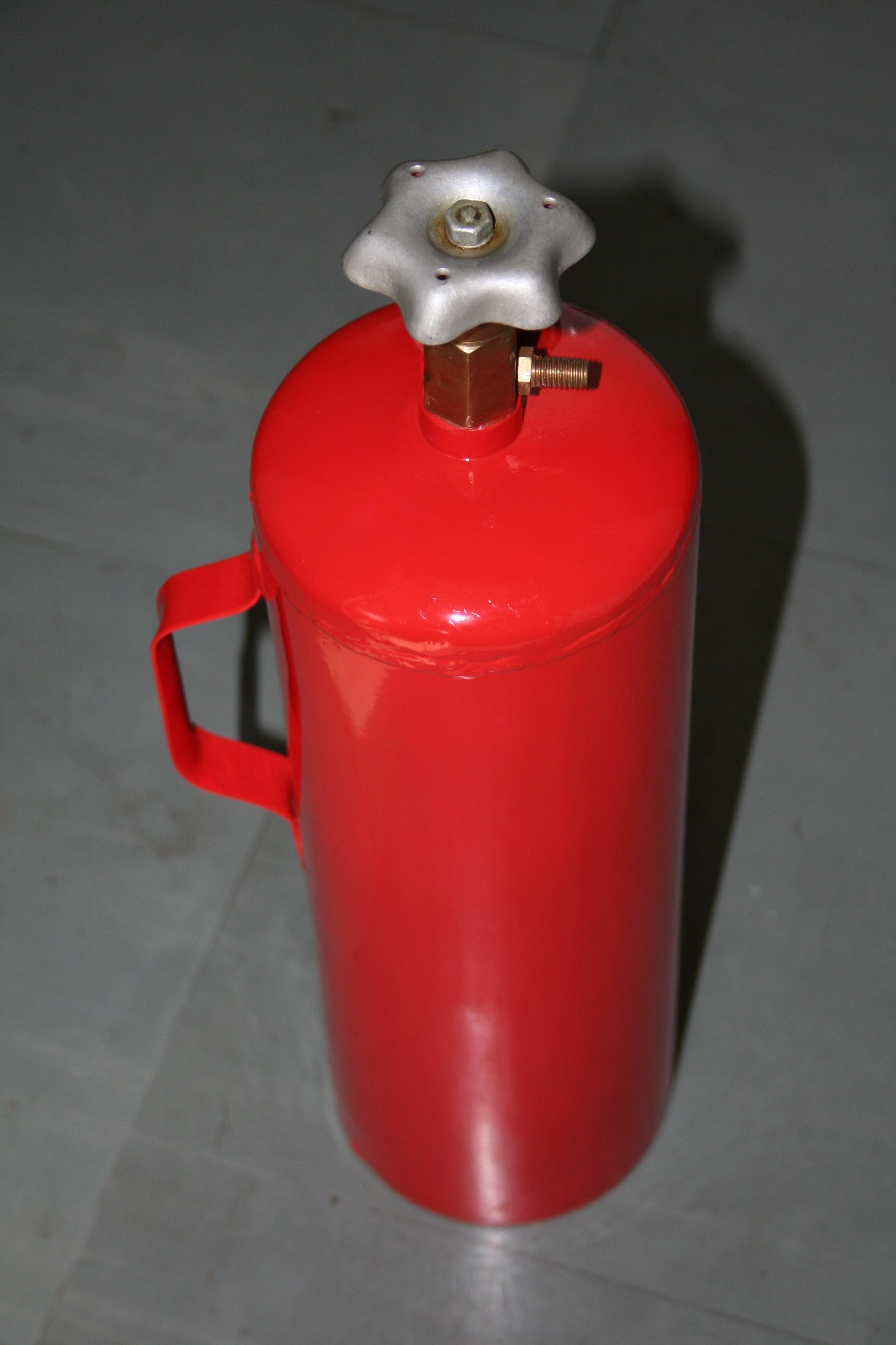 Fire extinguisher (2l CCl4)